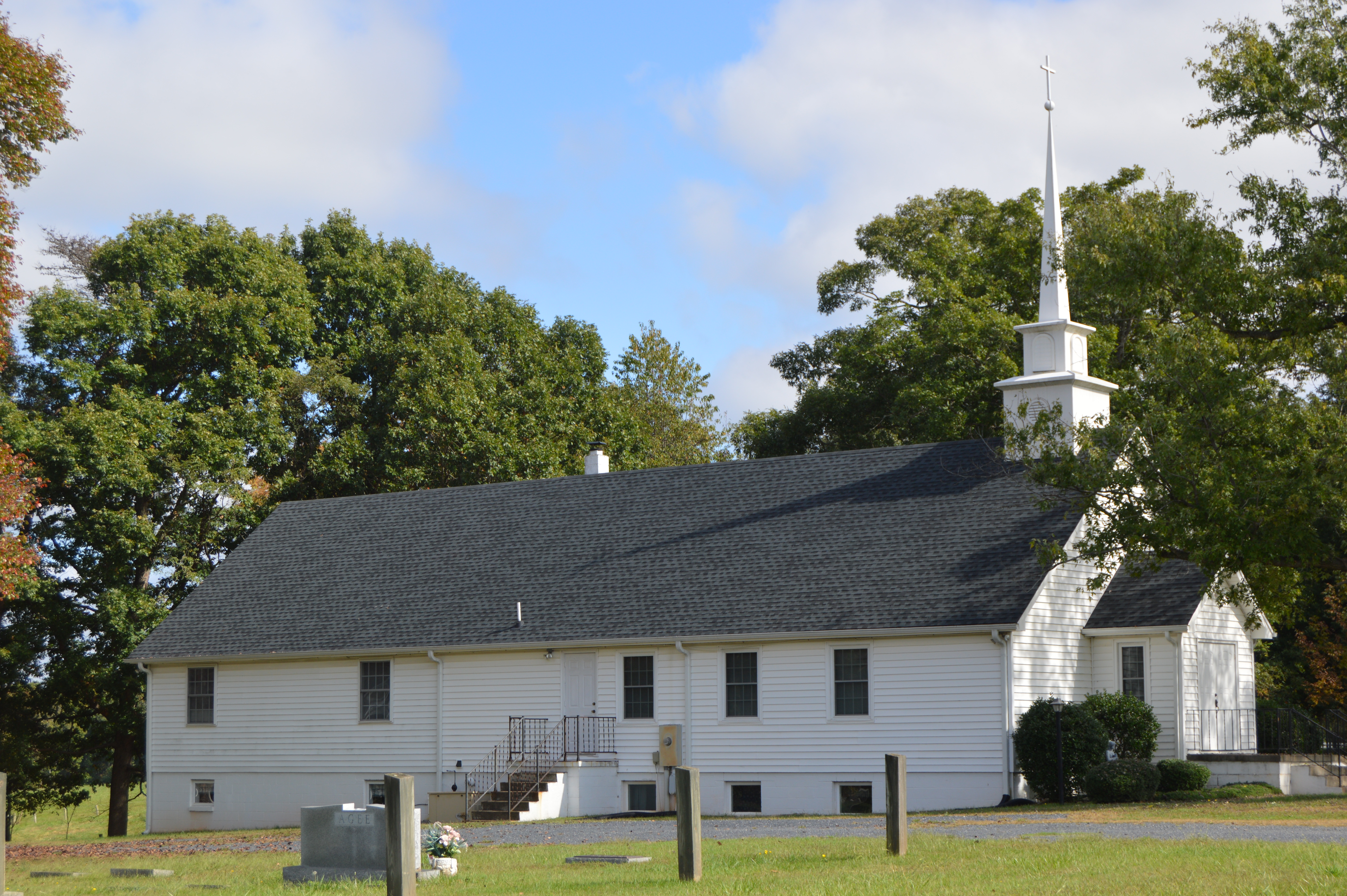 Front and western side of Brown Chapel United Methodist Church, located at 1711 Gravel Hill Road at Gravel Hill in Buckingham County, Virginia, United States.